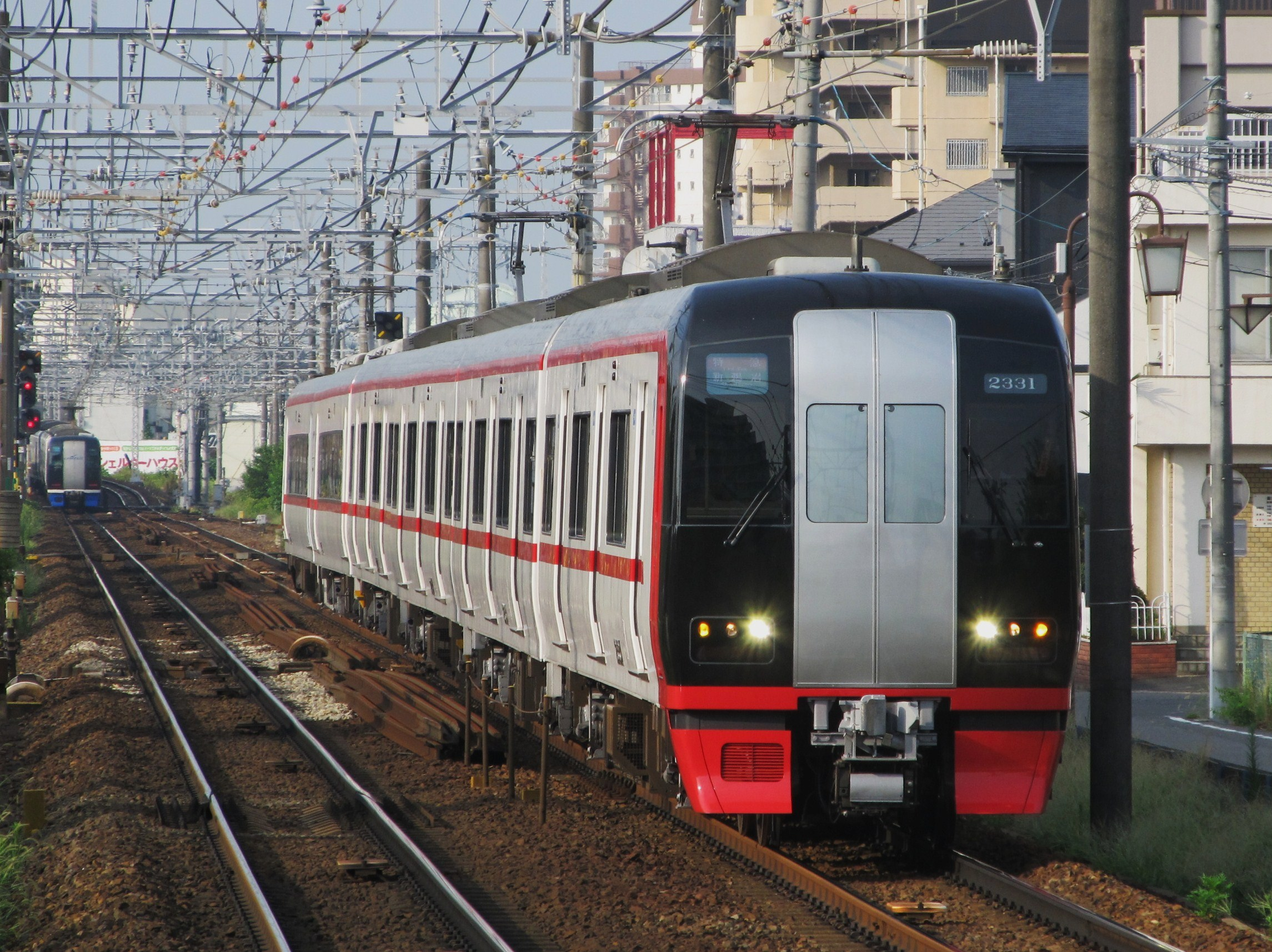 Meitetsu 2300 series. Limited Express bound for Shin Unuma. In Inuyama Line.